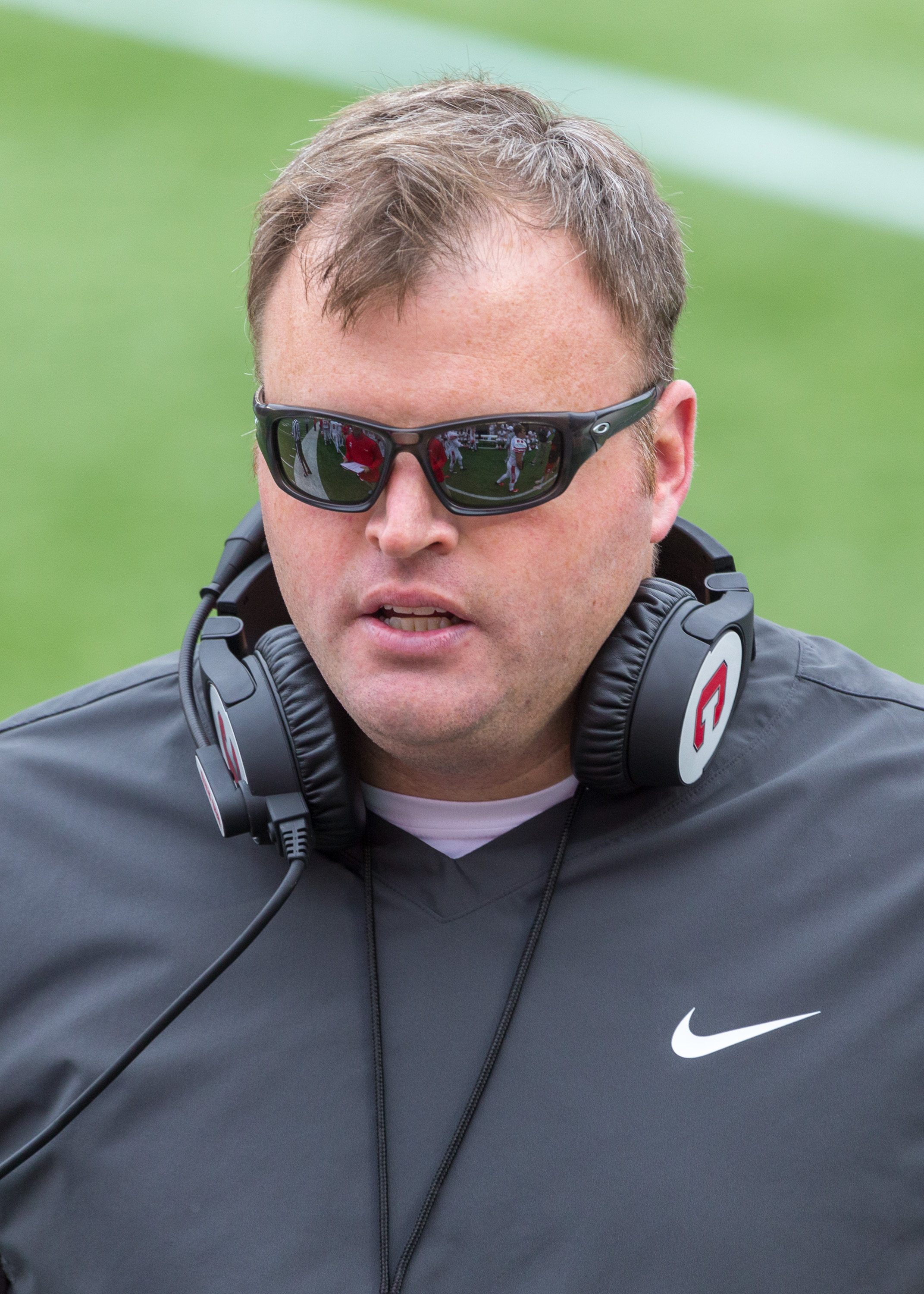 Cornell University head football coach David Archer. Cornell vs. Harvard football game, October 12, 2019, at Harvard Stadium. Harvard won, 35-22.